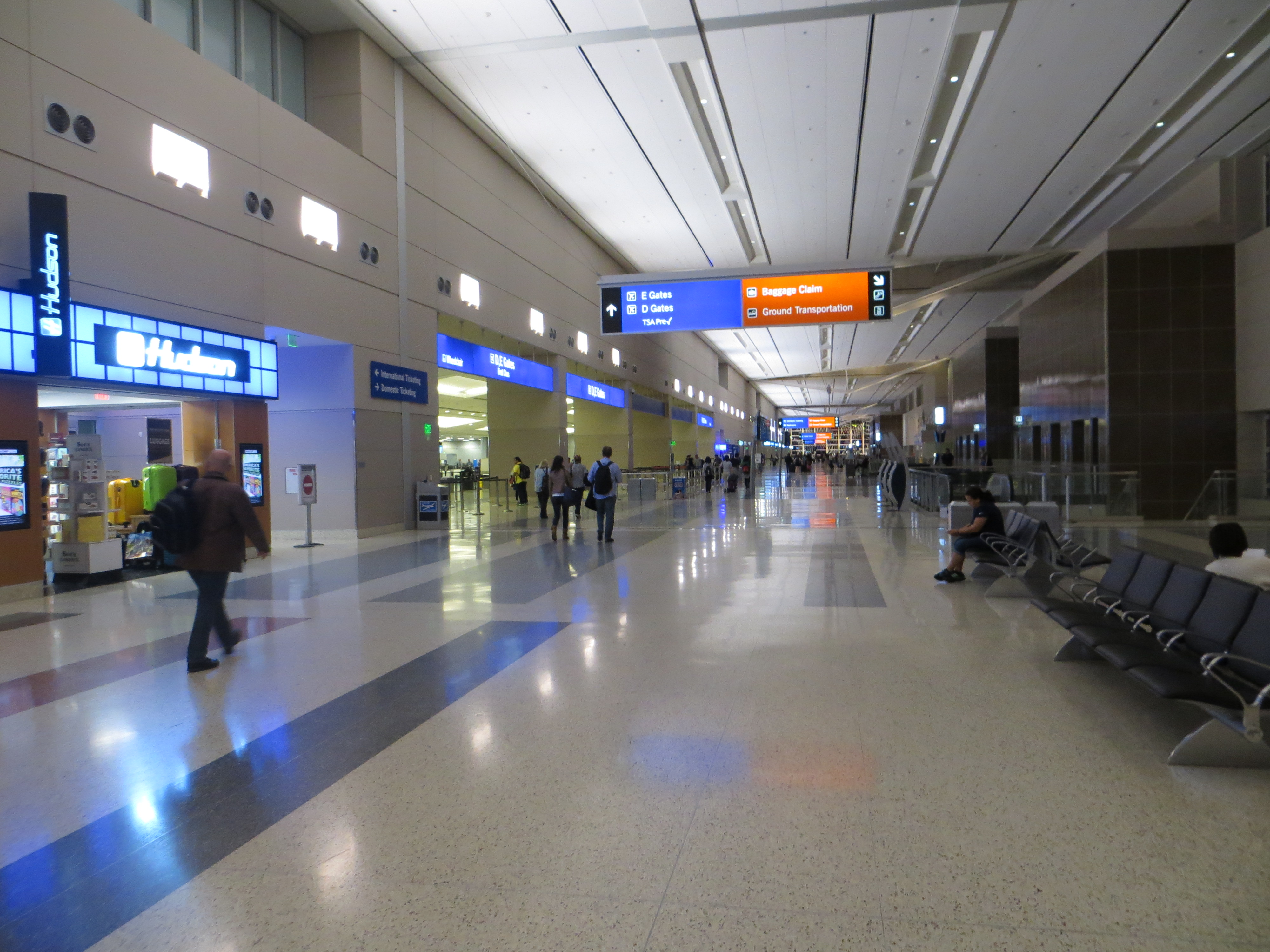 Landside at McCarran Airport (LAS) Terminal 3.